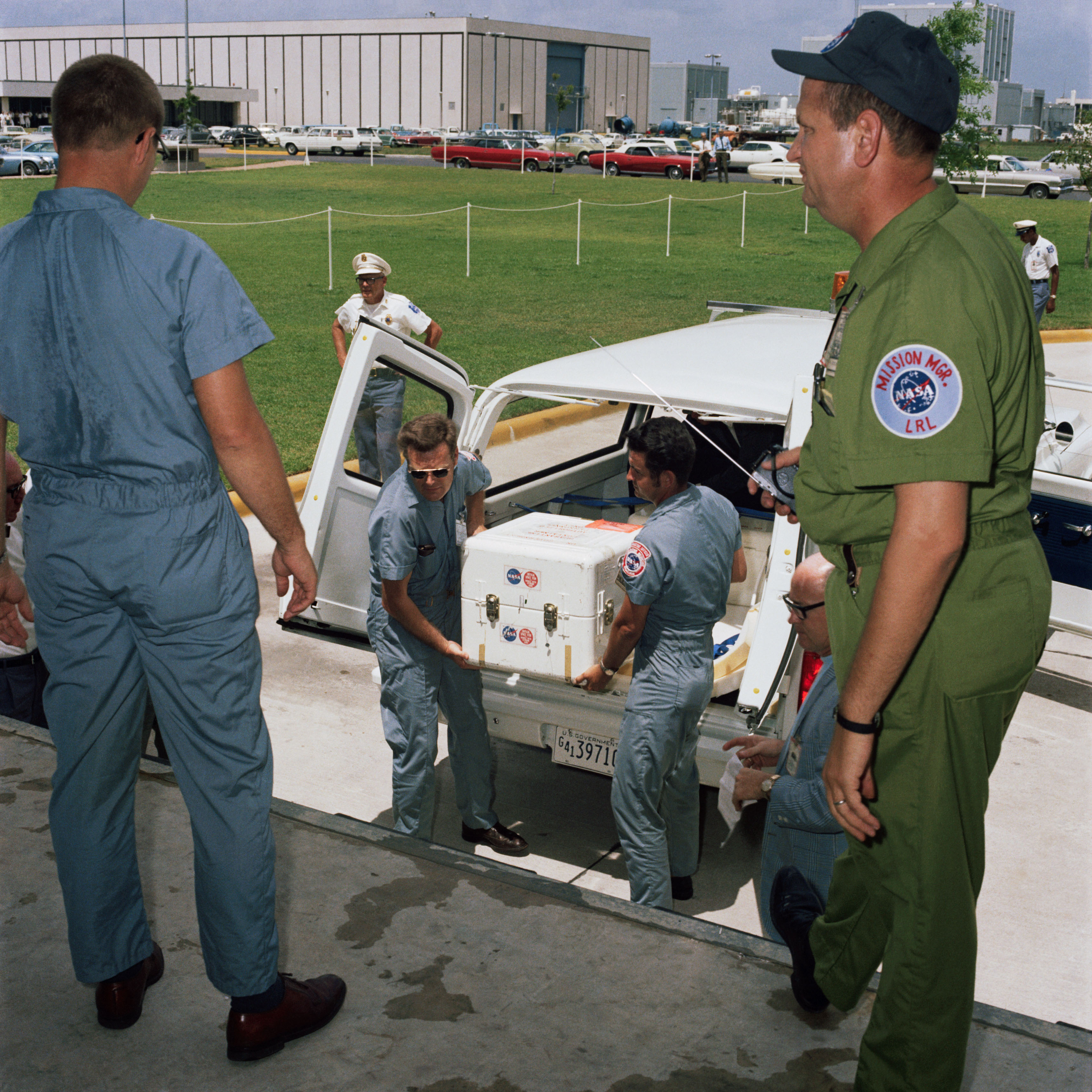 The first Apollo 11 sample return container, with lunar surface material inside, is unloaded at the Lunar Receiving Laboratory, Building 37, Manned Spacecraft Center (MSC). The rock box had arrived only minutes earlier at Ellington Air Force Base by air from the Pacific recovery area. The lunar samples were collected by astronauts Neil A. Armstrong and Edwin E. Aldrin Jr. during their lunar surface extravehicular activity.